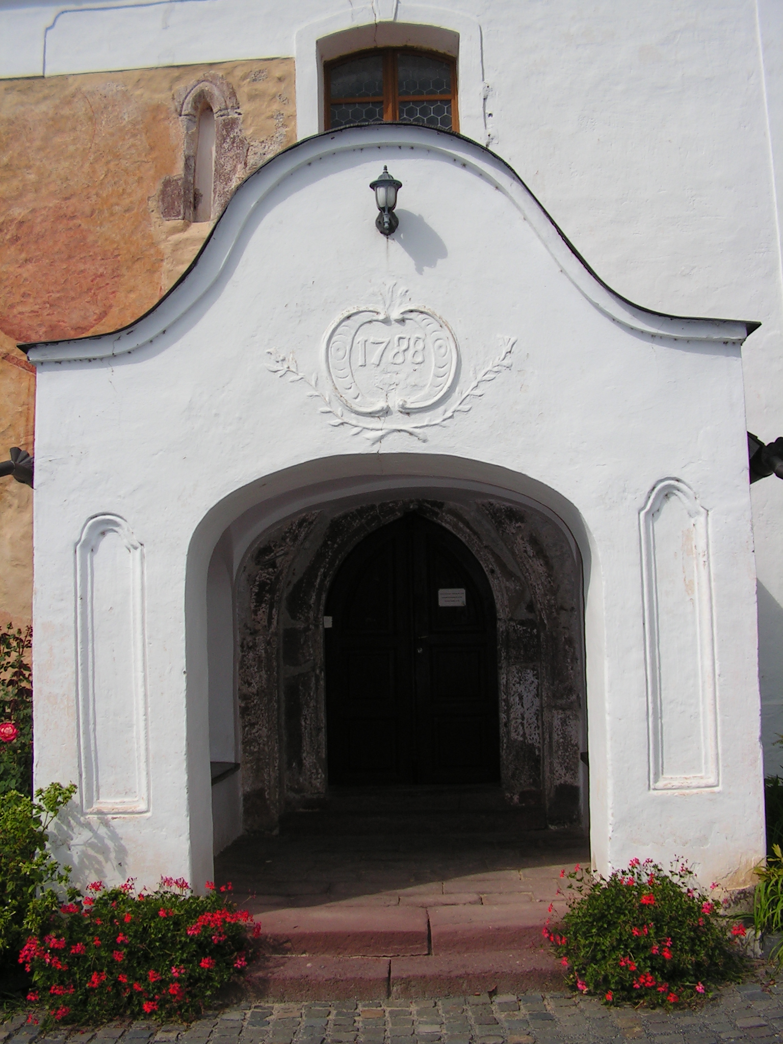 Reformed Church of Alsóörs, Hungary